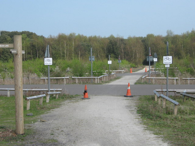 Crossing point in Fowlmead Country Park This is on a footpath from the carpark heading toward Lydden Wood (in background) and other parts of the park. It crosses 2 tarmac covered cycle tracks. The cycle tracks are large loops around the park. Thankfully the footpaths only cross them a few times.